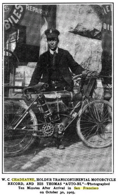 William Chadeayne (original caption): W.C. Chadeayne, holder transcontinental motorcycle record, and his Thomas "Auto-Bi." - Photographed ten minutes after his arrival in San Francisco on October 30, 1905.